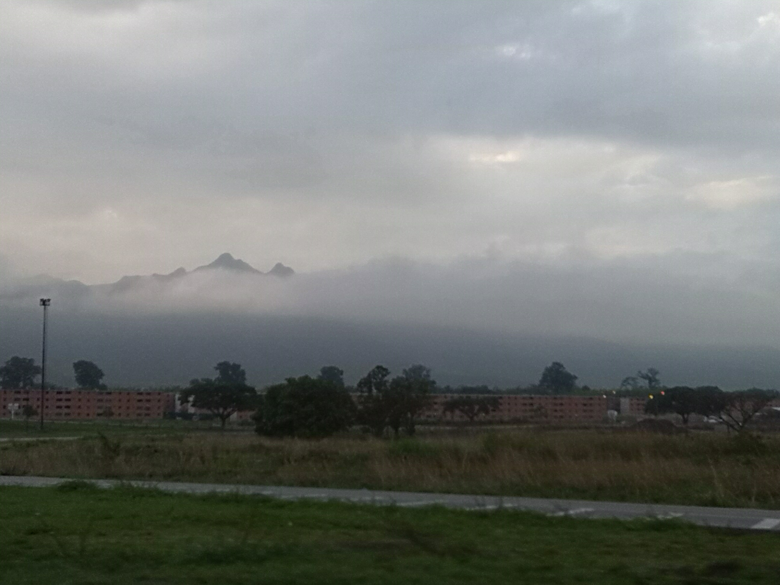 Mountains in San Diego municipality, Carabobo state, Venezuela